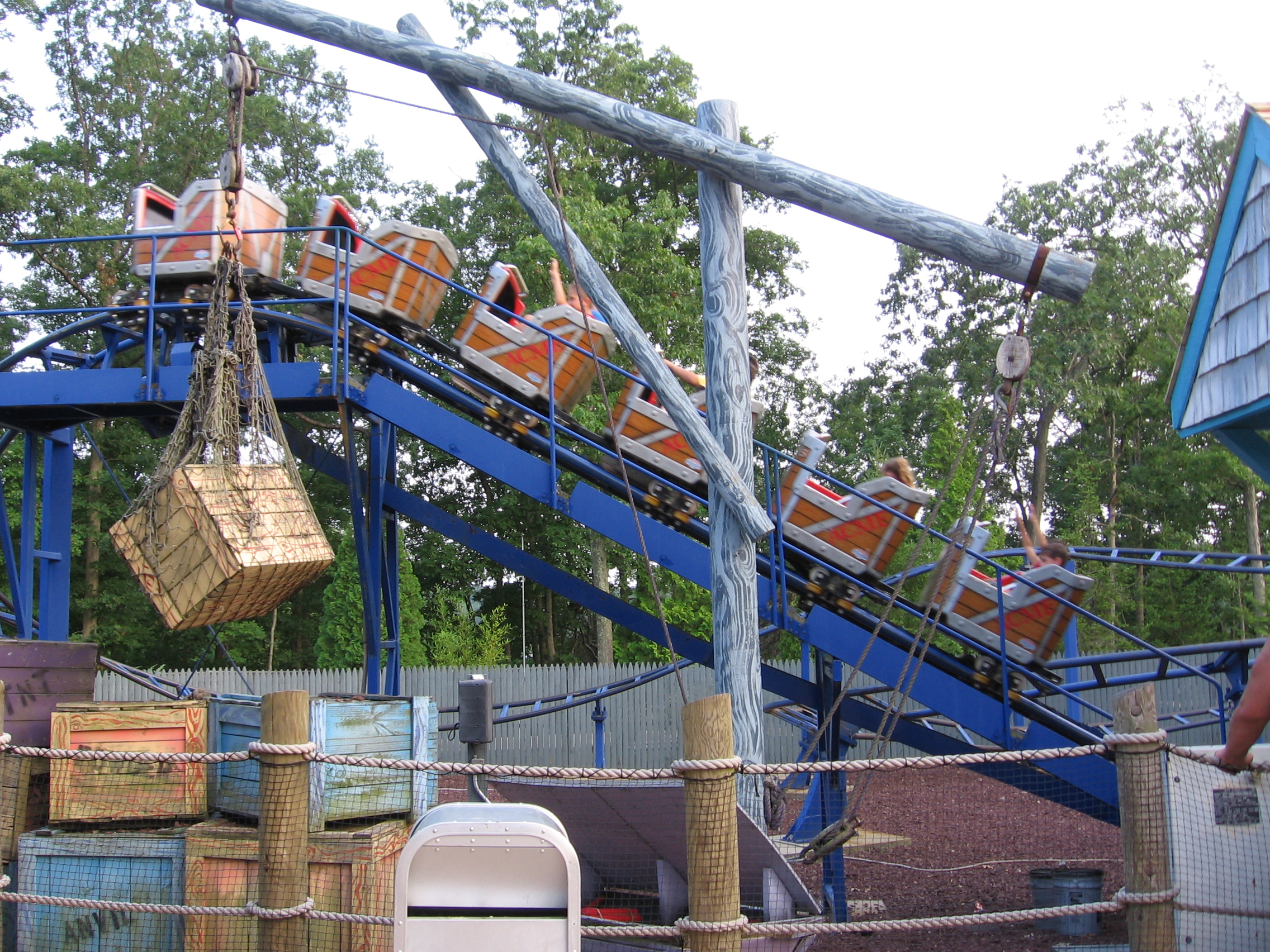 Road Runner Railway's train climbs the lift